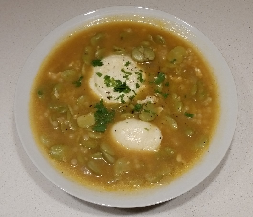 Traditional Maltese Kusksu (Fava Bean Soup)